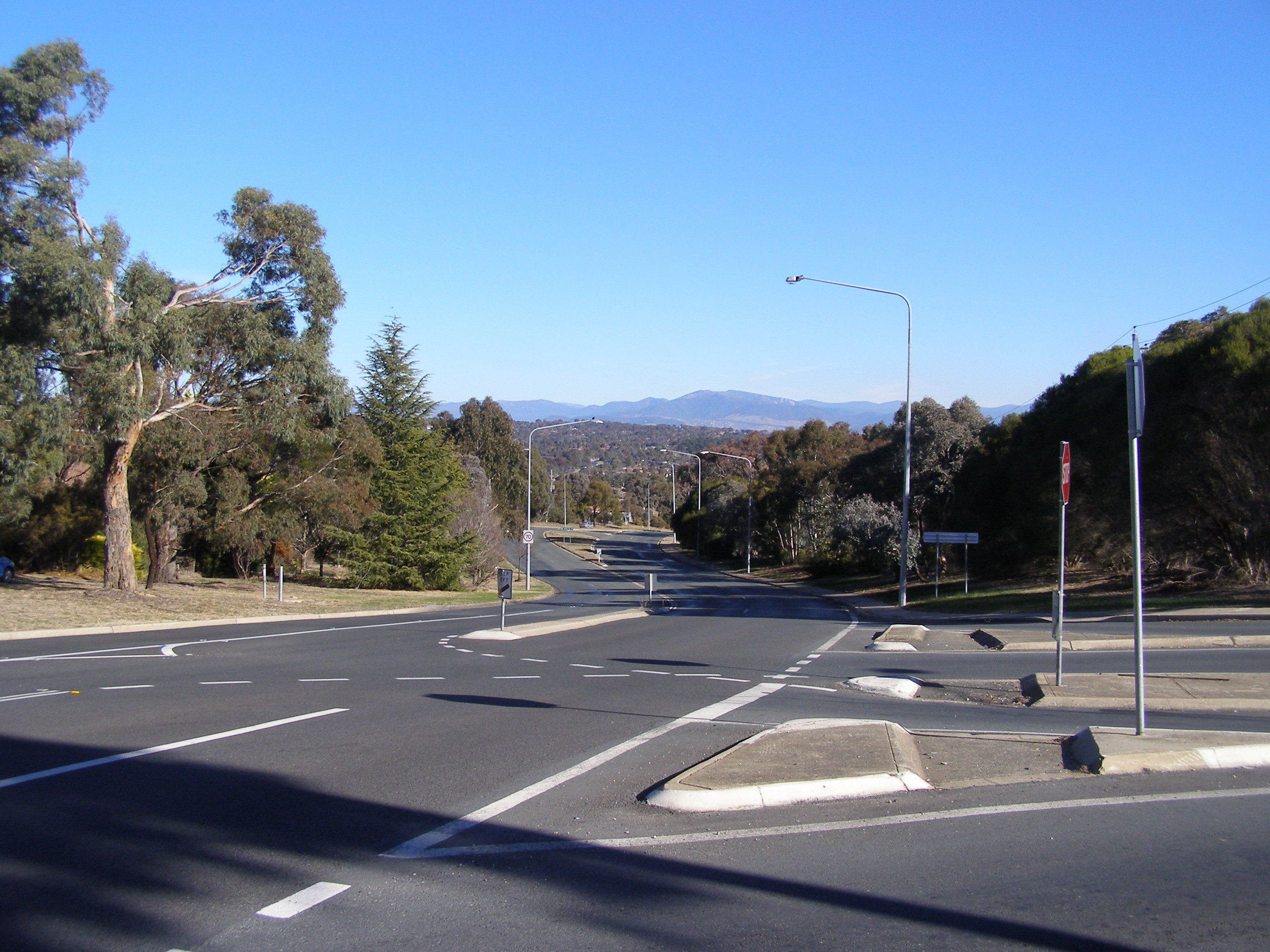 Kingsford Smith Drive at Spalding Street looking south